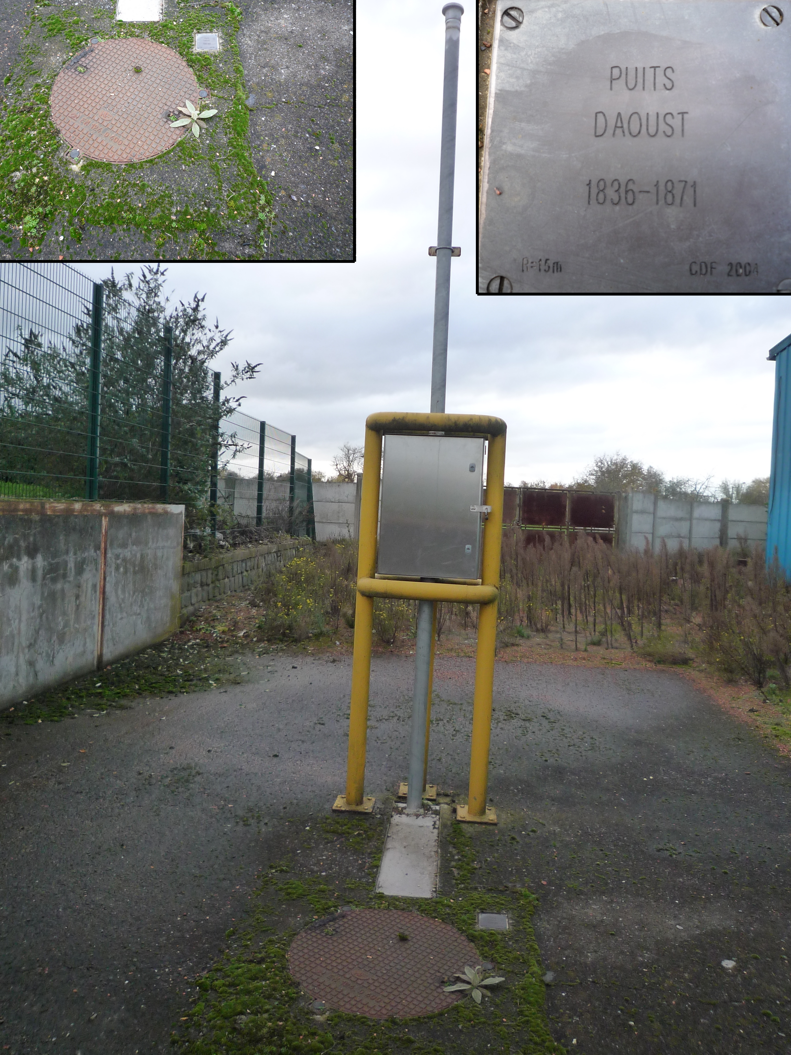 Pit Aoust, Compagnie des mines d'Aniche, Aniche, Nord-Pas-de-Calais, France.